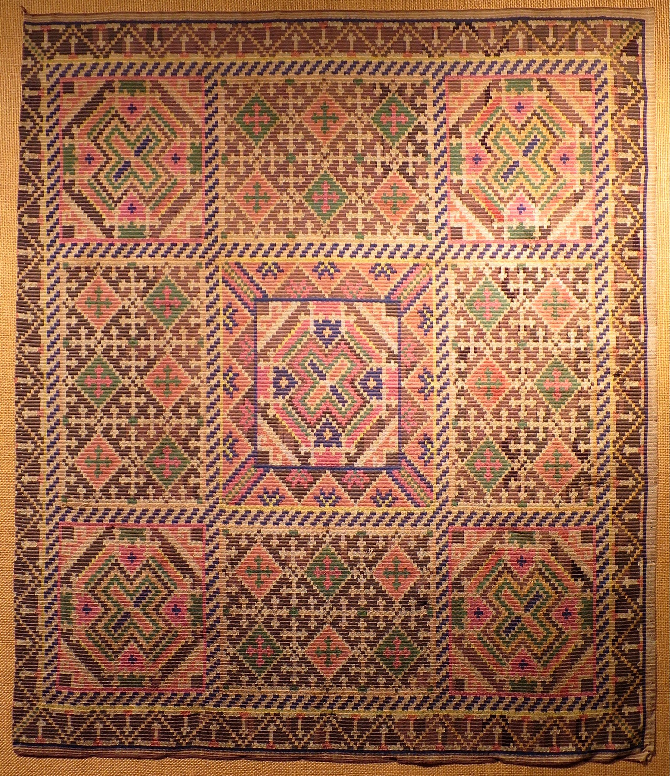 Double ikat weaving from Sulu, Philippines, banana leaf stalk fiber (abacá), 20th century, East-West Center